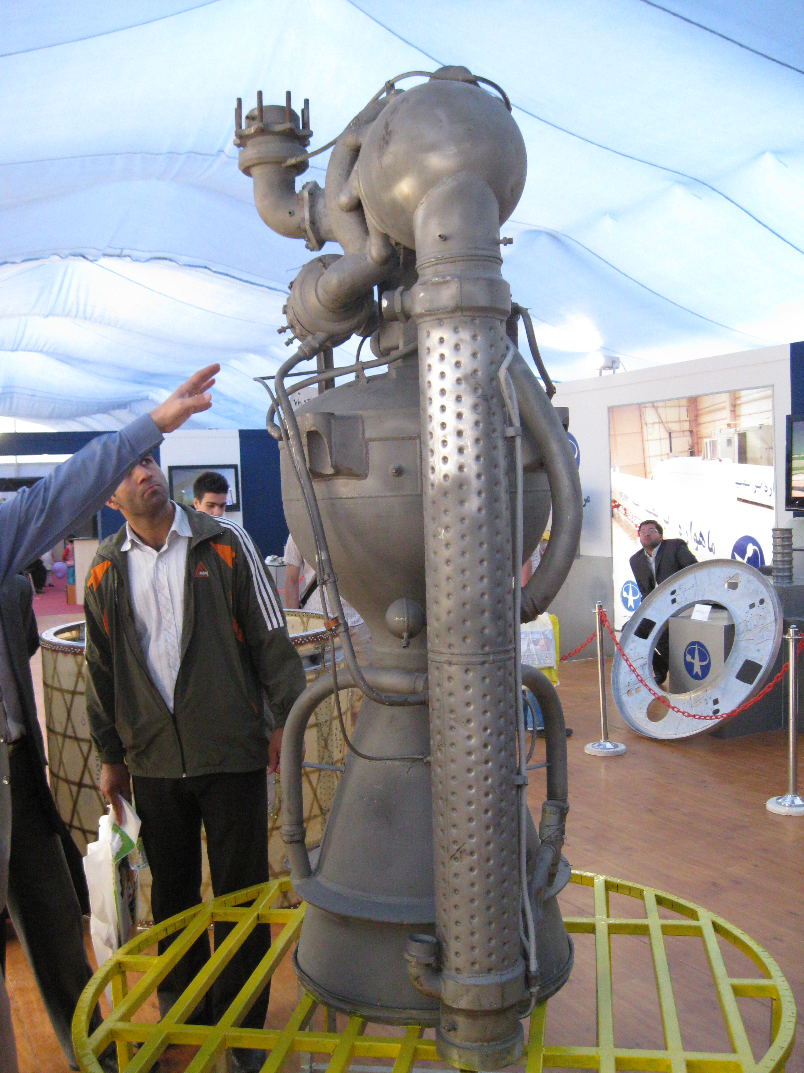 Omid [was Iran's first domestically made satellite Described as a data-processing satellite for research and telecommunications, Iran's state television reported that it was successfully launched on February 2, 2009